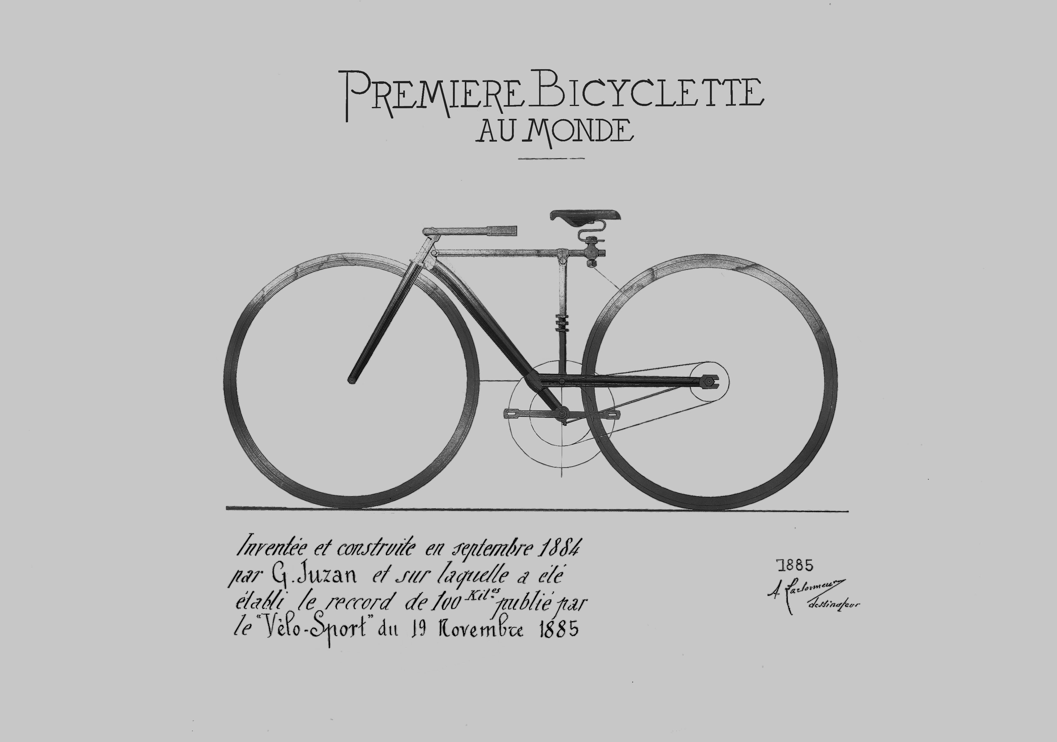 The first bycicle